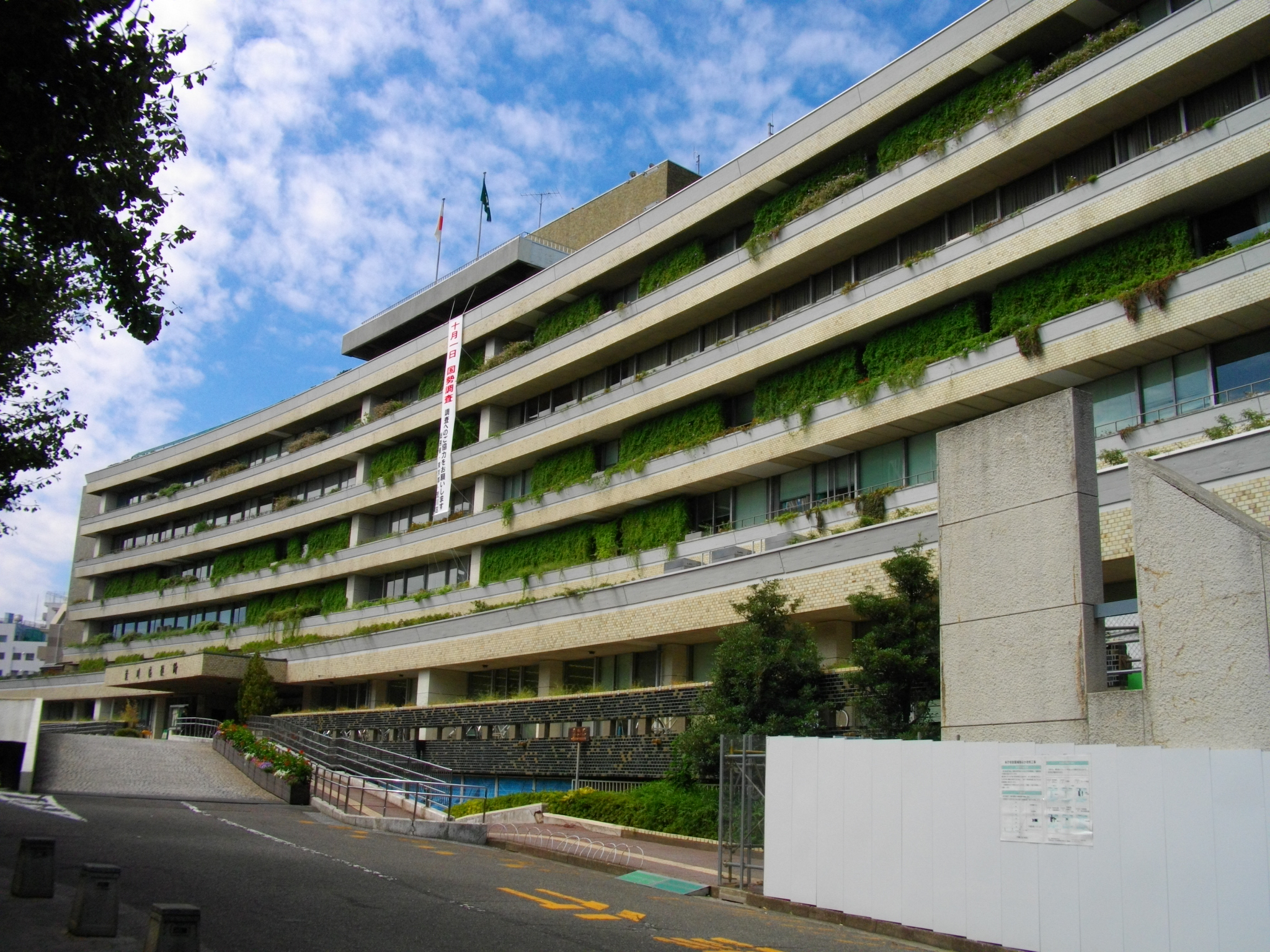 Arakawa City Office